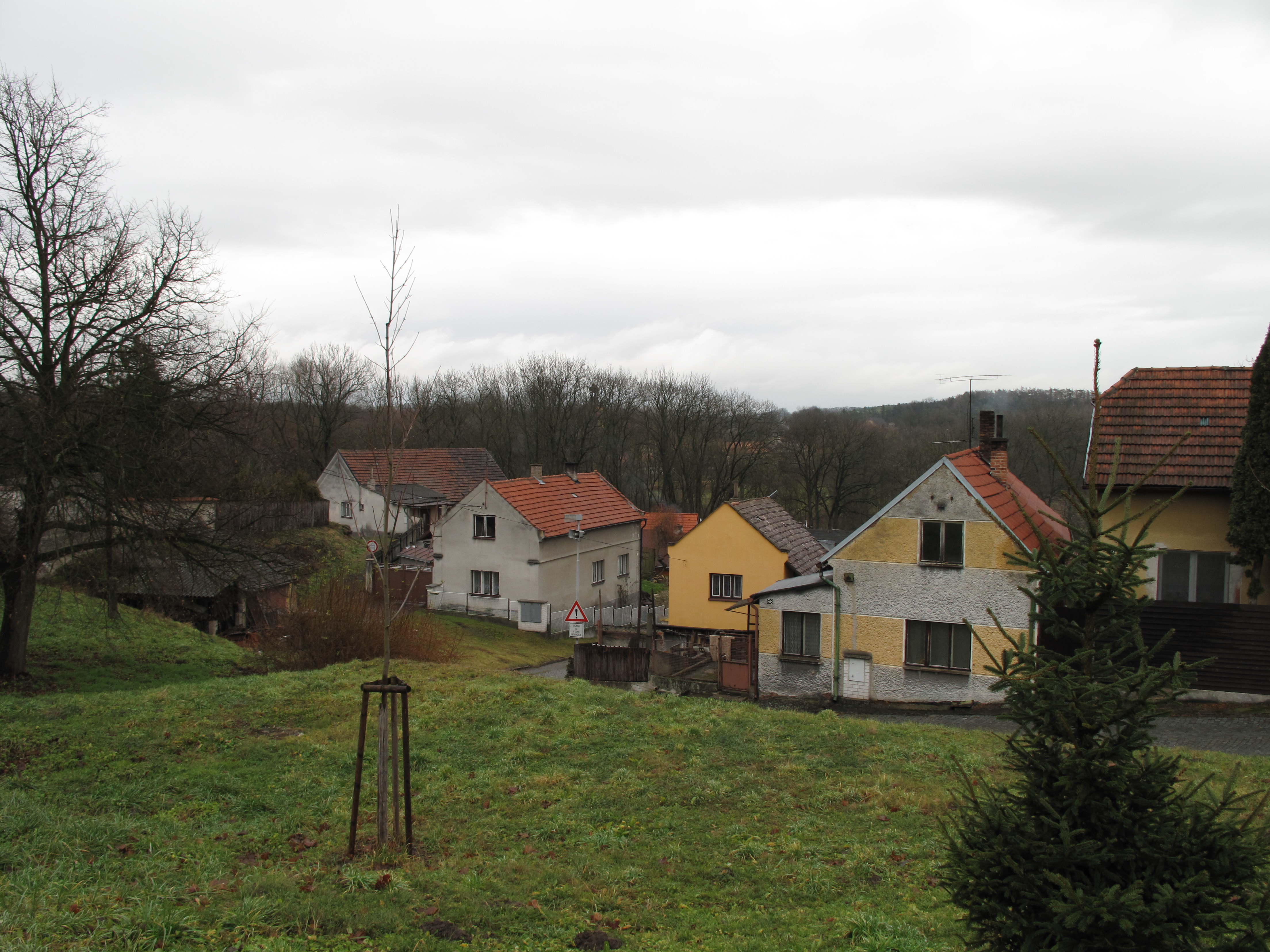 Houses on the village square in Košátky village, Mladá Boleslav District, Czech Republic.